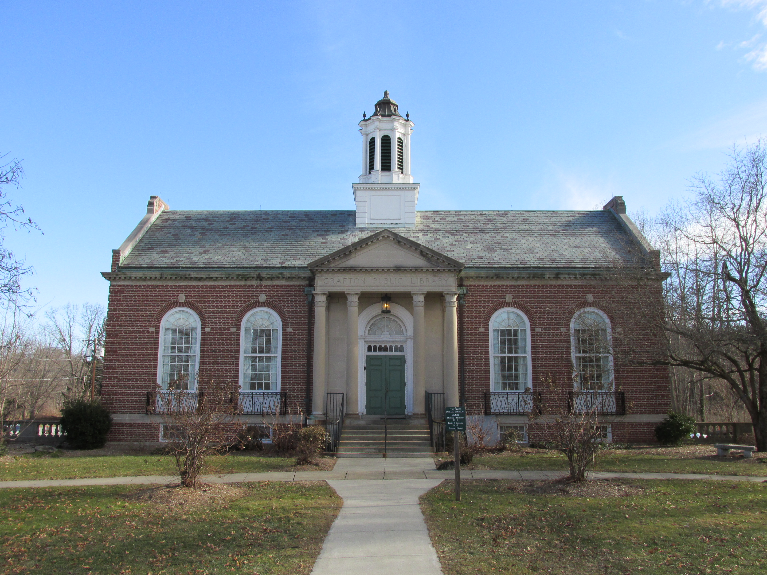 Grafton Public Library, Grafton Massachusetts